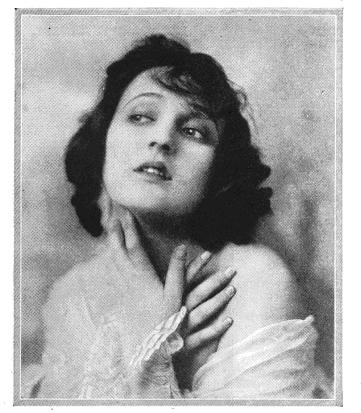 Actress Carmel Meyers ca. 1920